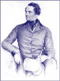 Johann Nepomuk Nestroy (Brustbild mit Hut)